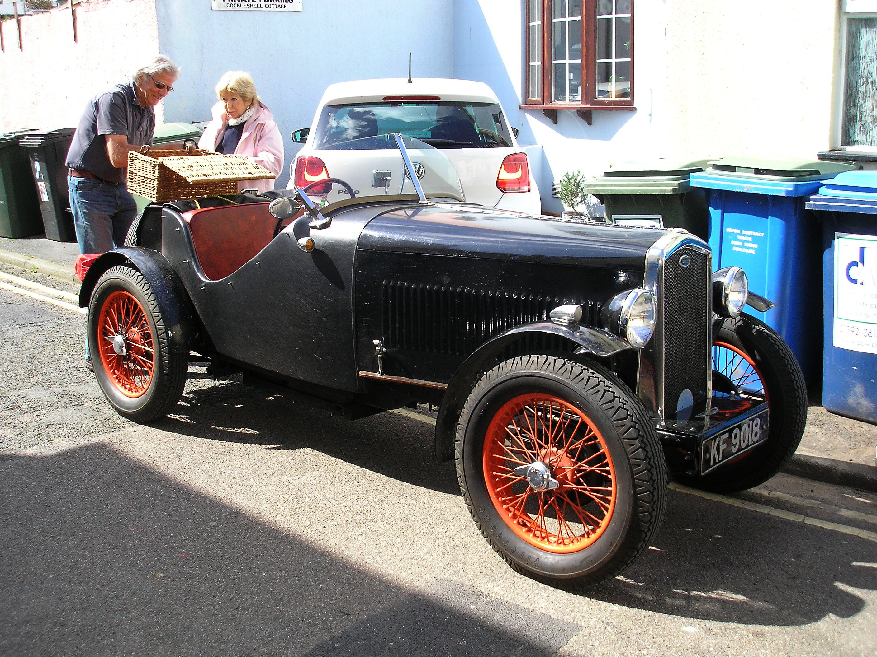 Wolseley Hornet 12 open two-seaterCaptured in Teignmouth Devon on 15th May 2012.(DVLA) first registered 26 March 1932, 1271cc Camera: Olympus FE-120 6.0 Digital.